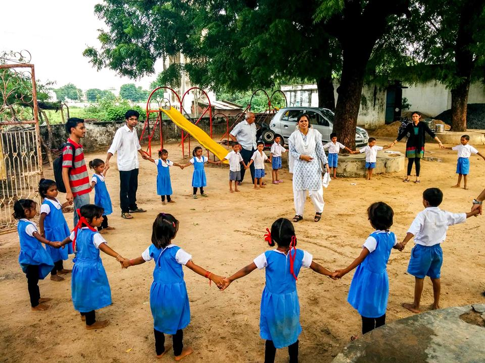 A group of school children forming a circle